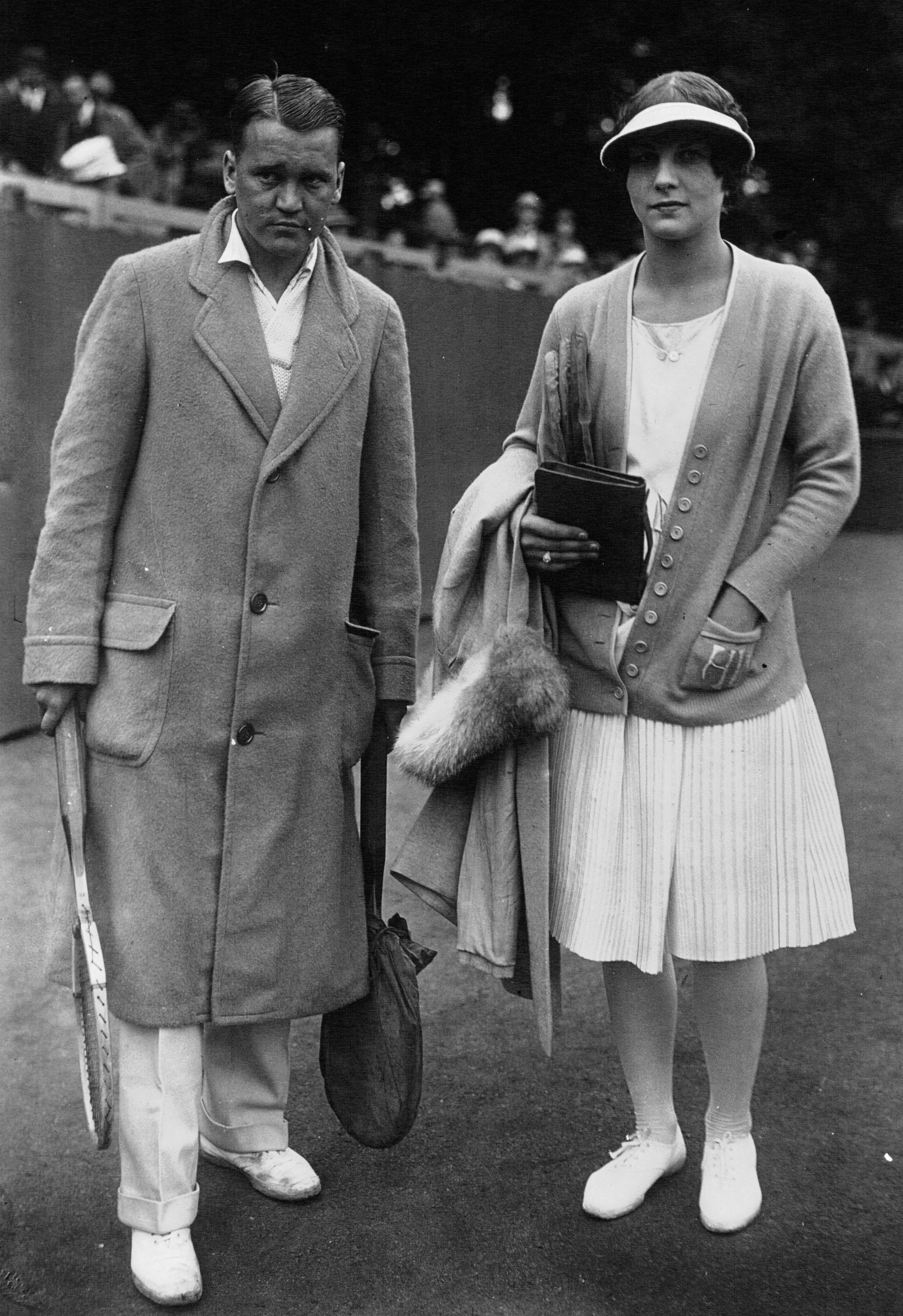 American tennis players Vincent Richards and Helen Wills at the Racing Club de France in 1926.